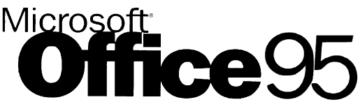 Microsoft Office 95 wordmark